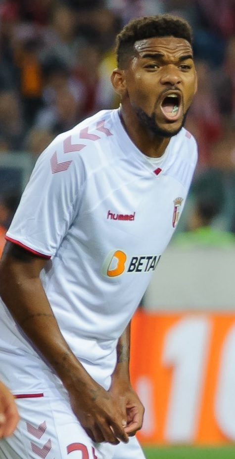 Bruno Viana with SC Braga in an Europa League qualifying game against FC Spartak Moscow.